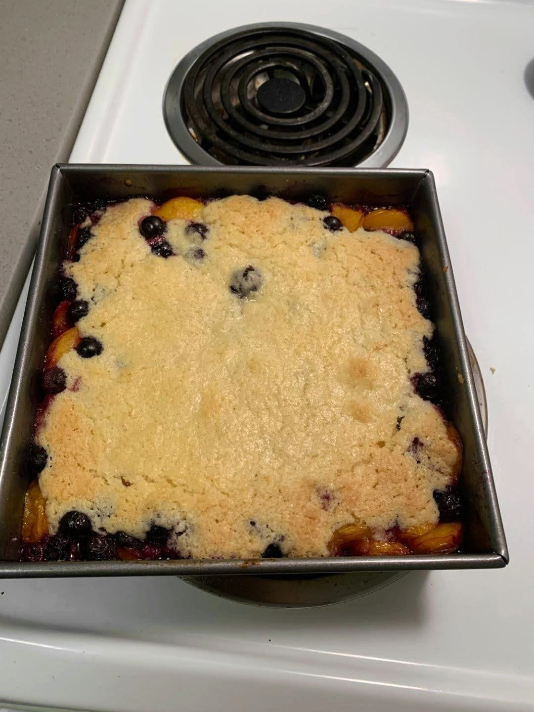 Plum Blueberry Cobbler